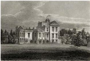 Holywell House, Hertfordshire; home of the 1st Duke and Duchess of Marlborough